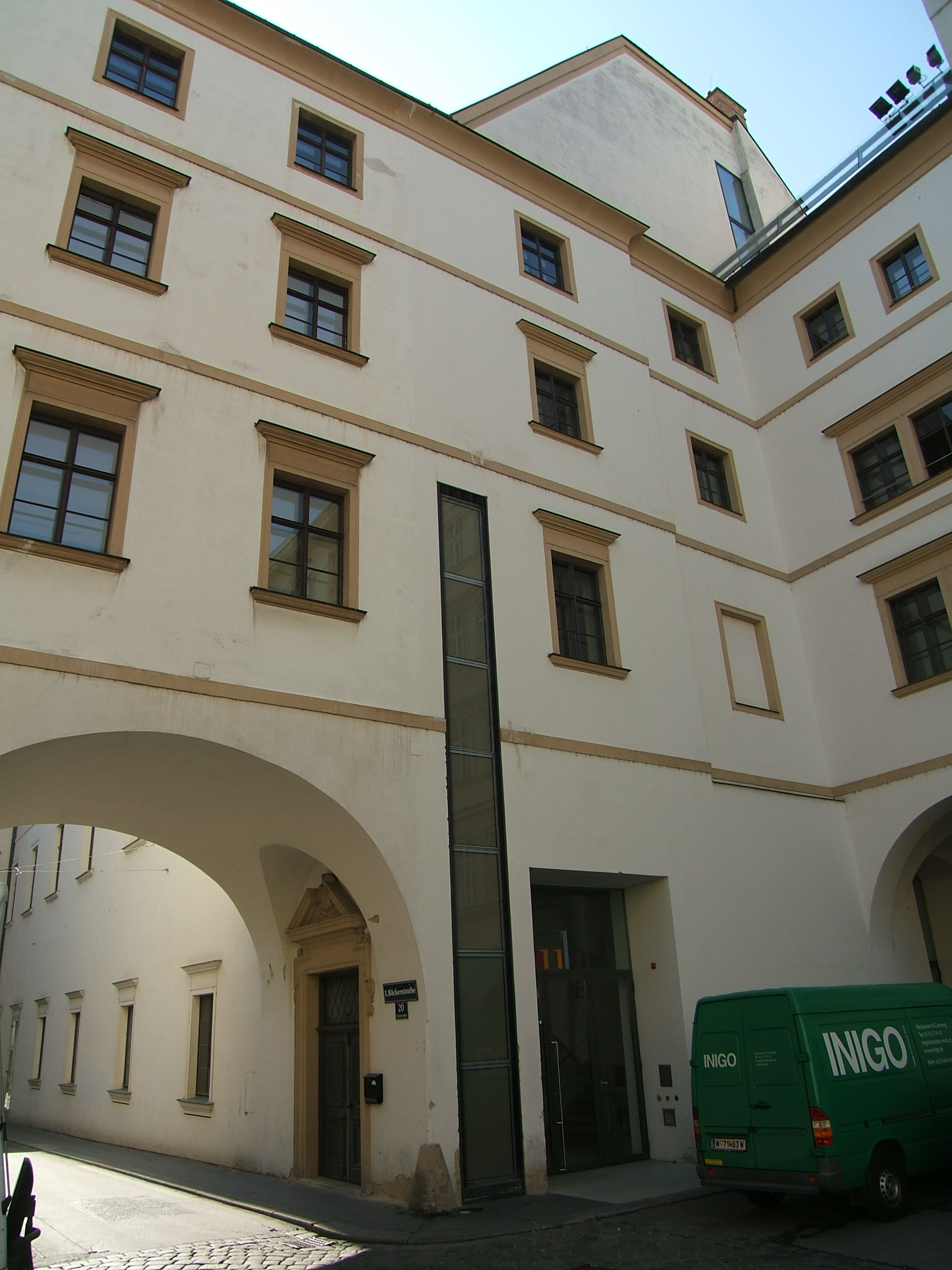 Old University building in Vienna, Bäckerstraße 20